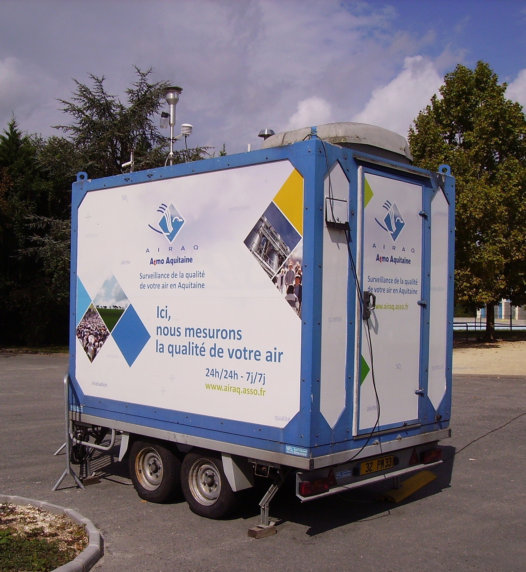 Air quality monitoring station (lab) in Aquitaine by Airaq association, France. The station remained at least 5 days at this location (great uncrowded area).